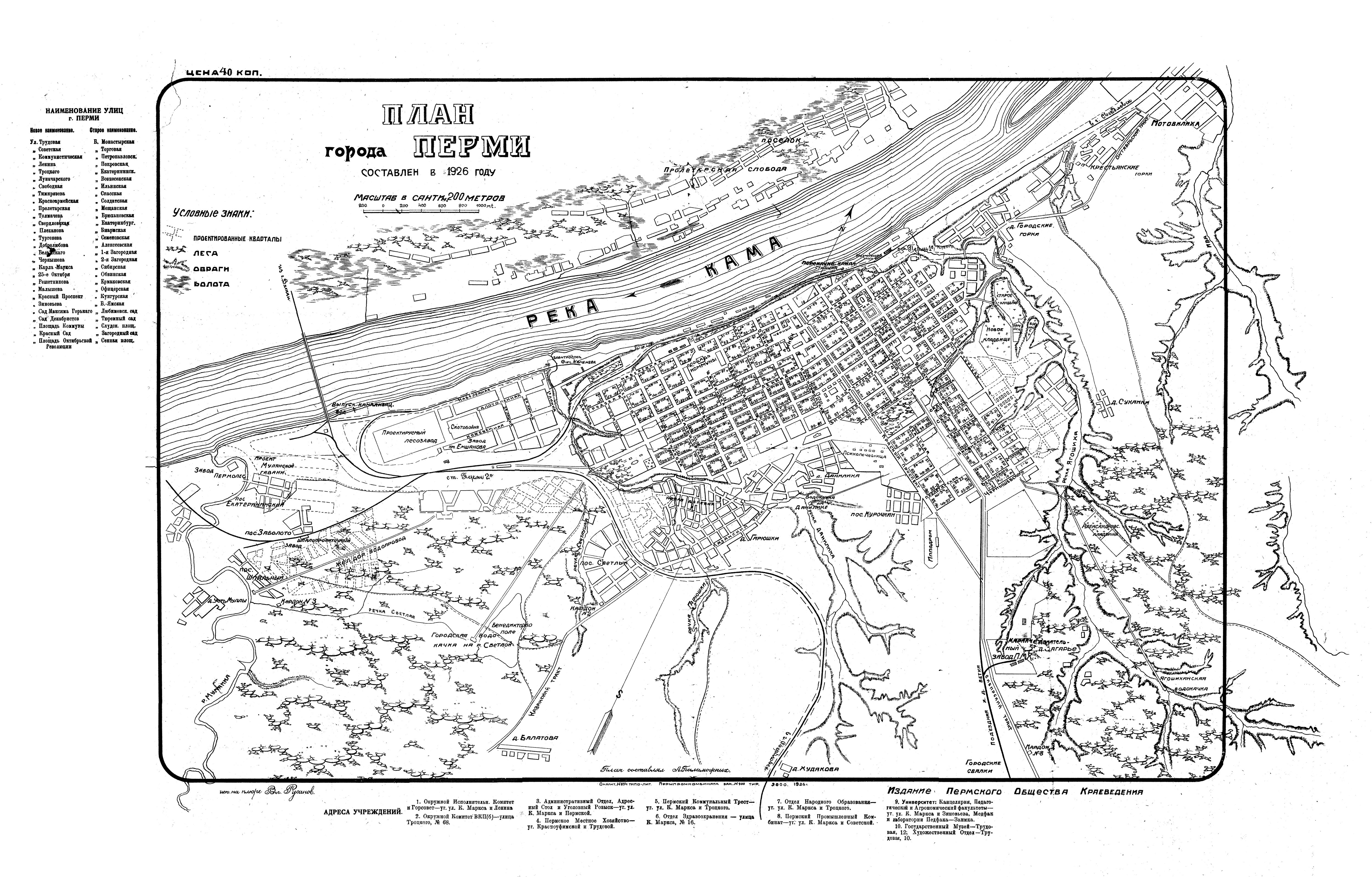 Perm Map 1926